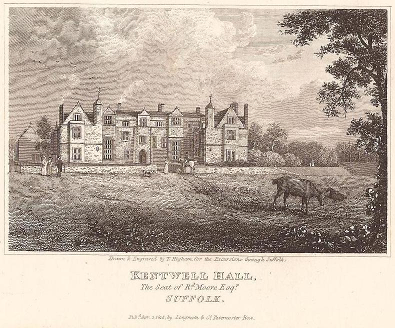 Engraving of Kentwell Hall, Suffolk, United Kingdom. The artist was THOMAS HIGHAM (1796-1844), a landscape engraver and draughtsman.